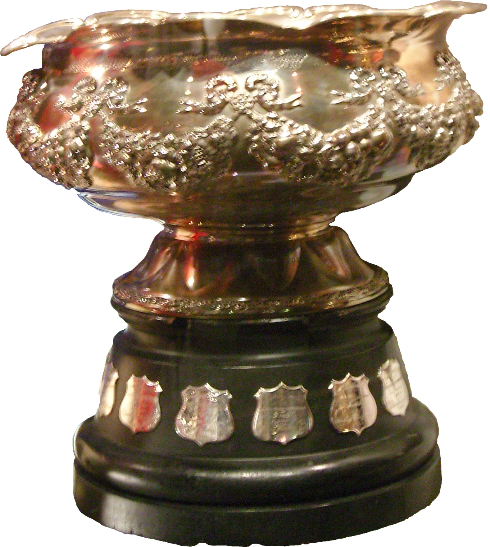 The championship trophy of the Canadian Amateur Hockey League which existed from 1898 until 1906.